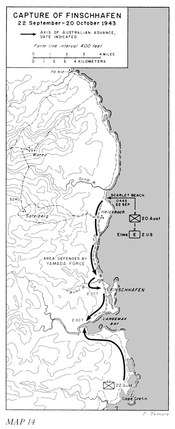 Map showing the Australian advance on Finschhafen in Sep-Oct 1943